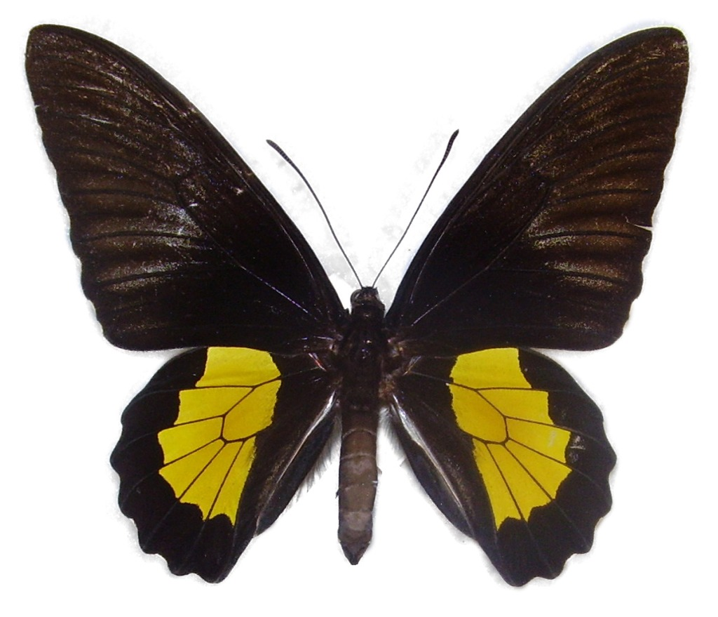 Troides plato Male, upperside. Kupang, Timor March 1975